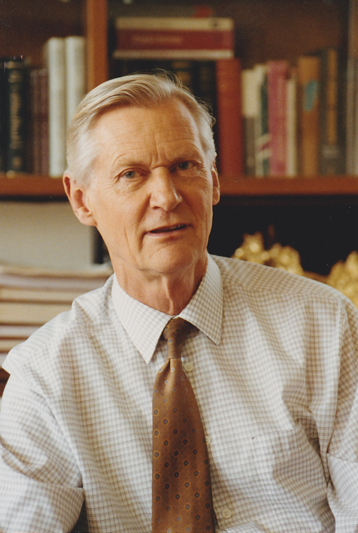 Prof Sir Alan Battersby, Chemistry Department, University of Cambridge